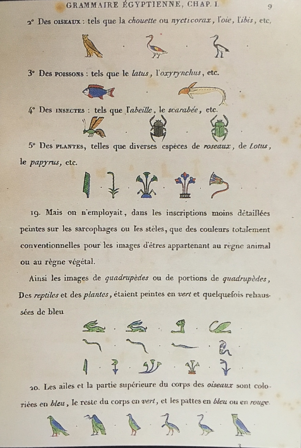 Egyptian hieroglyphs from Grammaire égyptienne by Jean-François Champollion. — Opening of the book Champollion : Un scribe pour l’Égypte by Michel Dewachter, collection “Découvertes Gallimard” (№ 96), 1990.